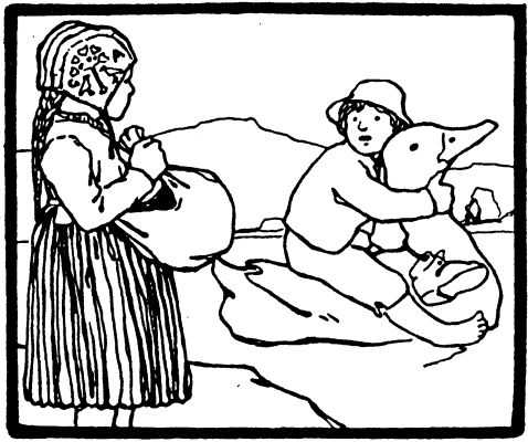 Illustration by Otto Ubbelohde to the fairy tale Hansel and Gretel